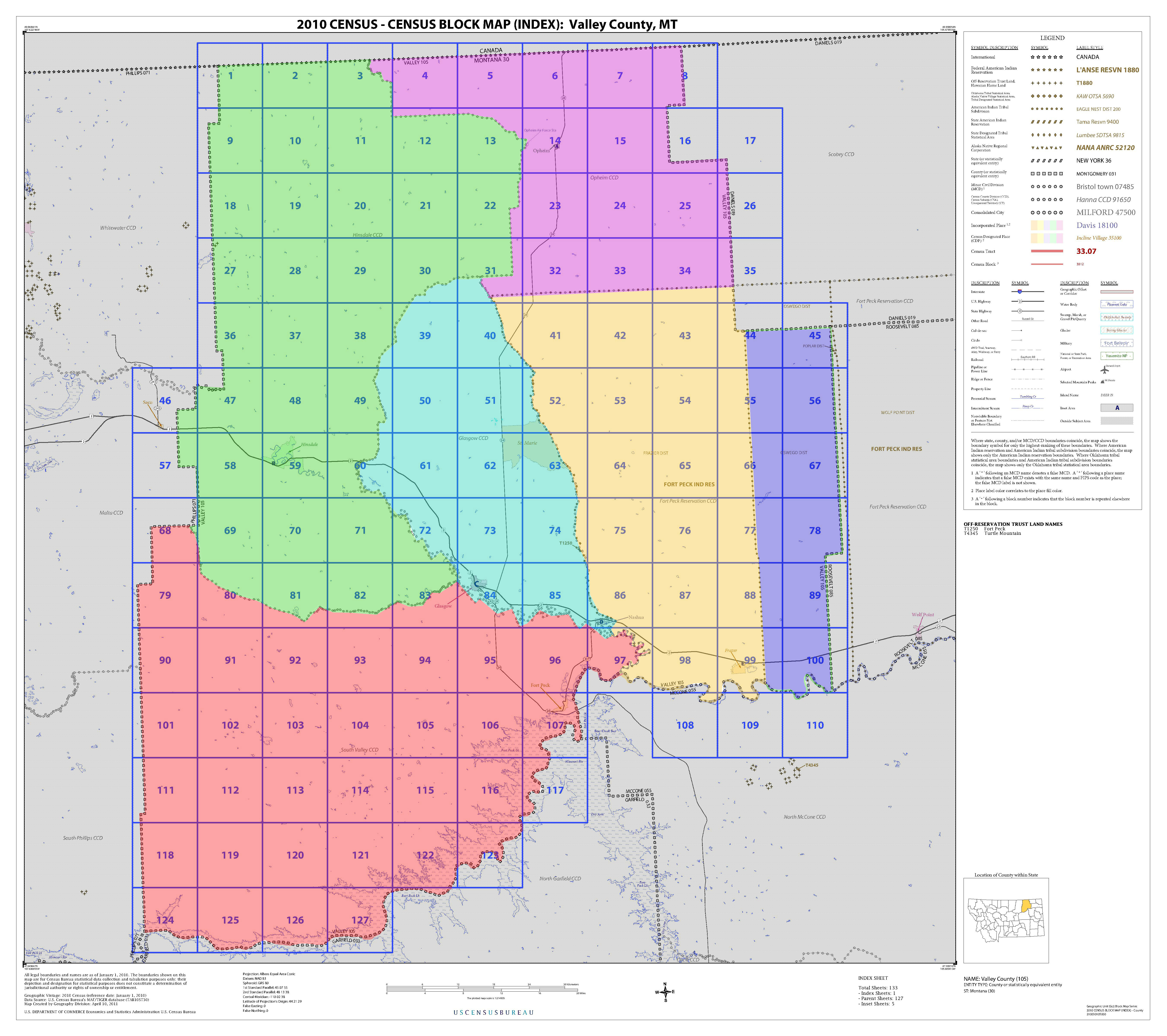 A colored map of the census districts in Valley County, Montana. Taken from the 2010 U.S. Census.